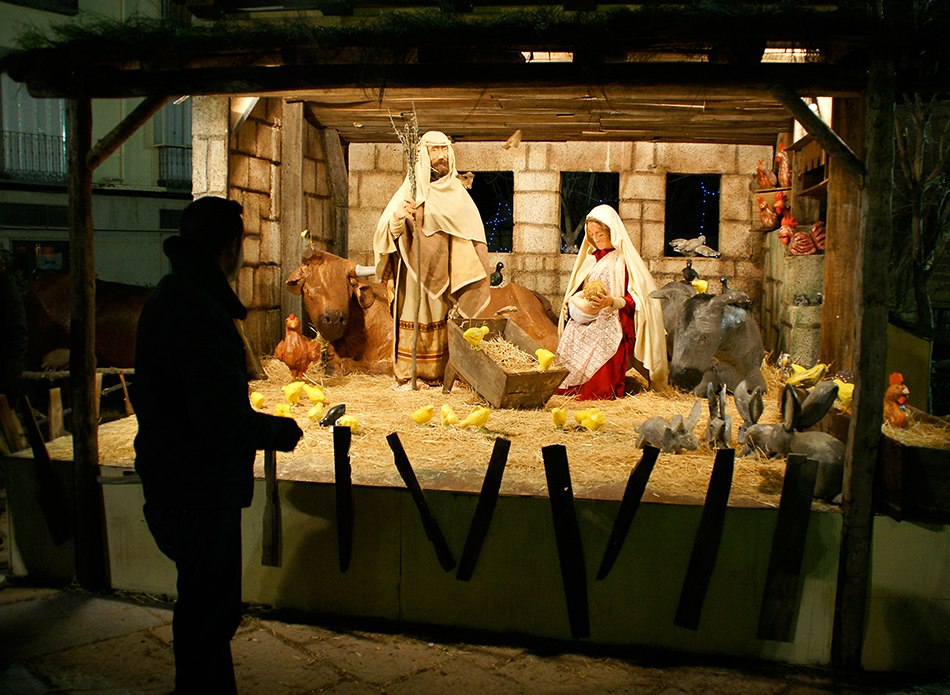 Nacimiento en San Lorenzo de El Escorial.